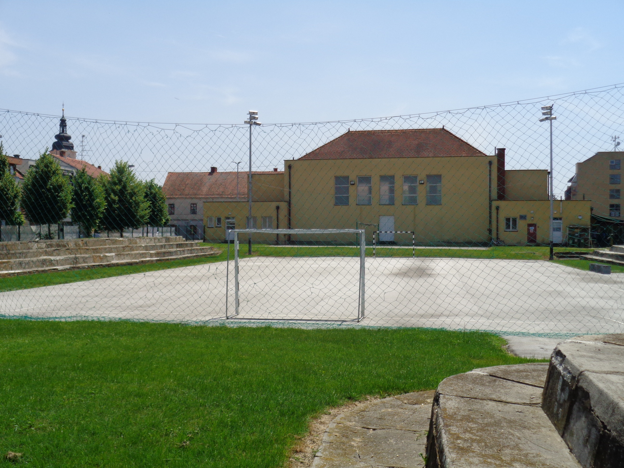 Handball court (outdoor) at Macanov Dom sportshall in Čakovec, Medjimurje County, Croatia